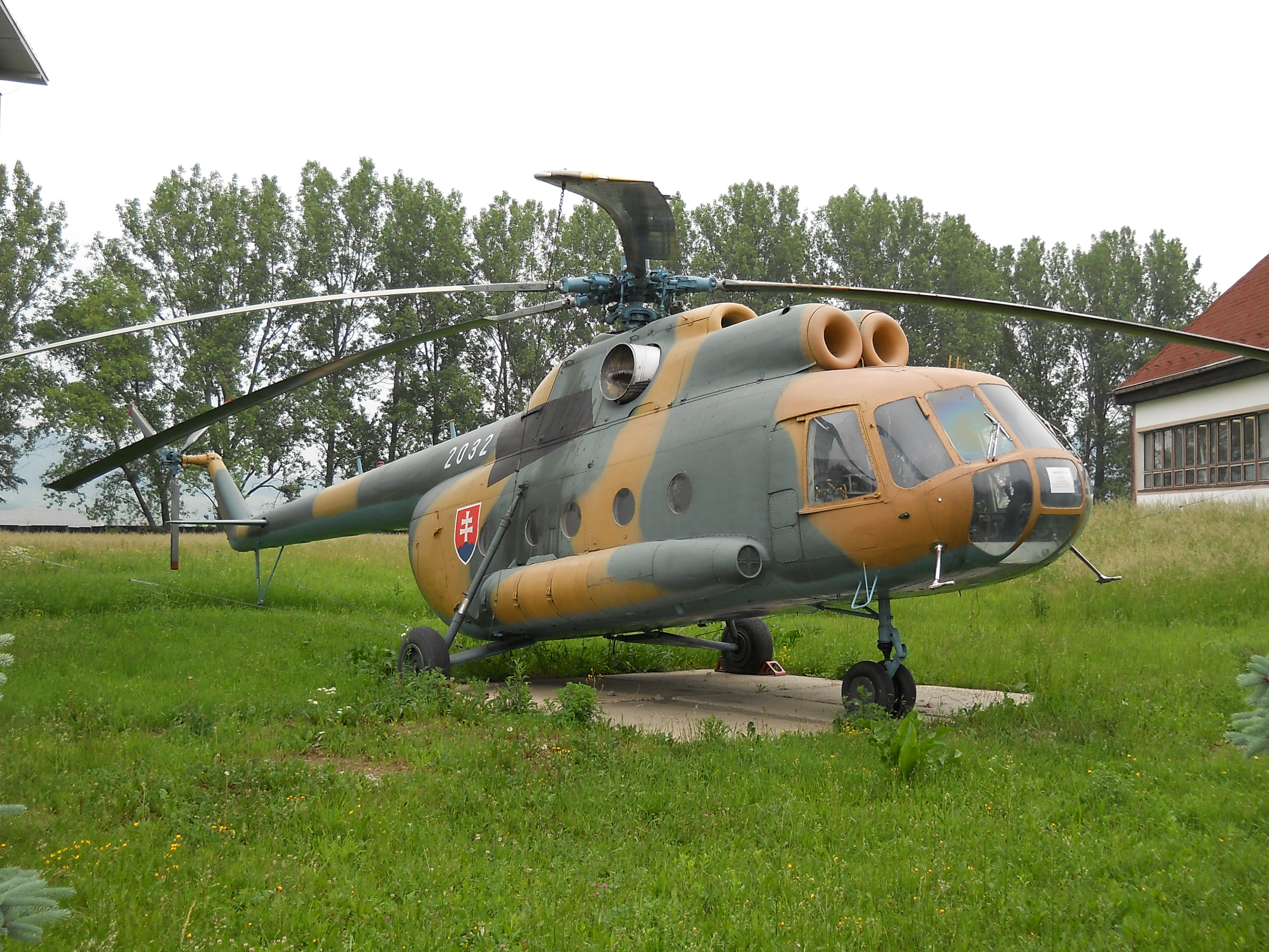 This is Mil Mi-8T of Slovak Air Force, seen on Prešov air base.It was withdrawn from service and now became a part of exhibition of Slovak air force equipment inside the base.